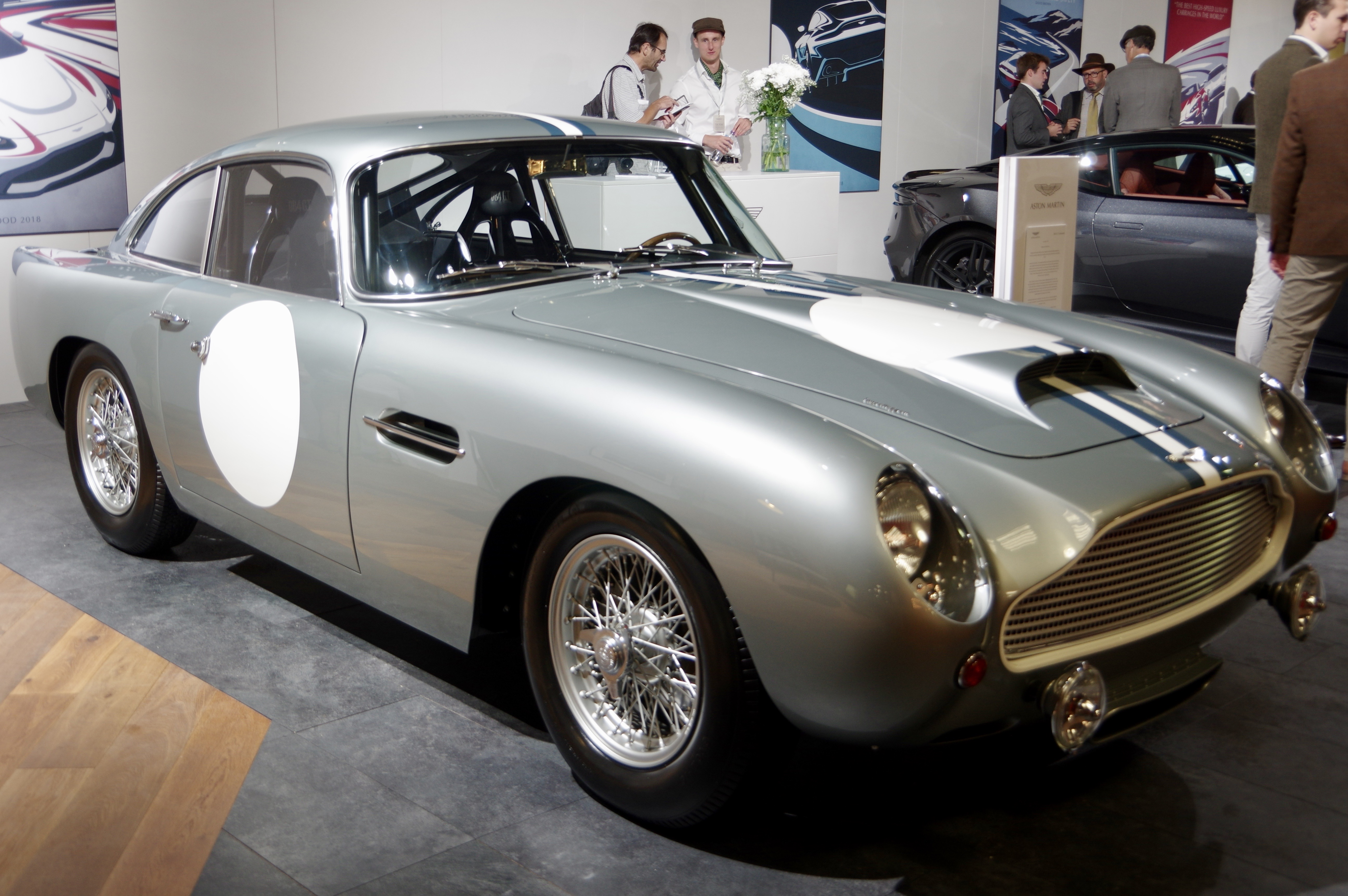 This is a band new car built at Aston Martin's Newport Pagnell Works Goodwood Revival 2018